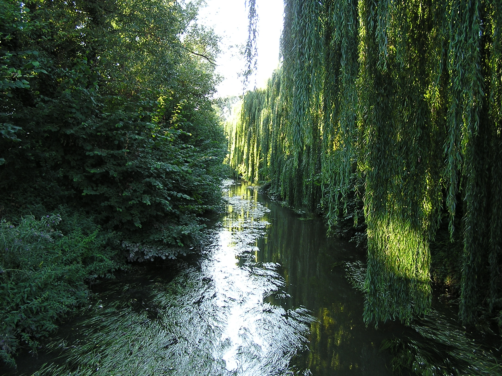 The 'Wetter in Friedberg-Dorheim